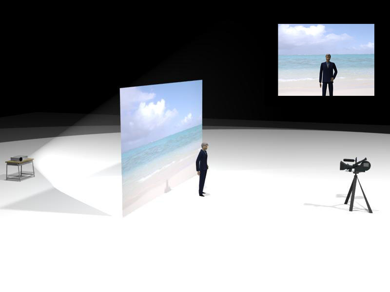 Figure of Rear projection effect